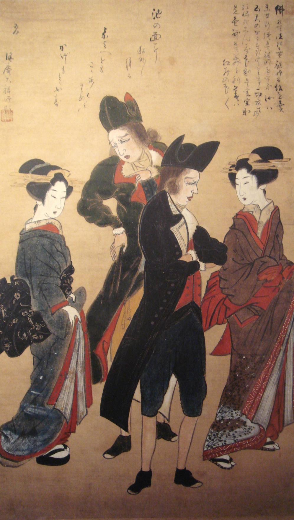 Dutchmen_with_Keisei's_Nagasaki_c1800